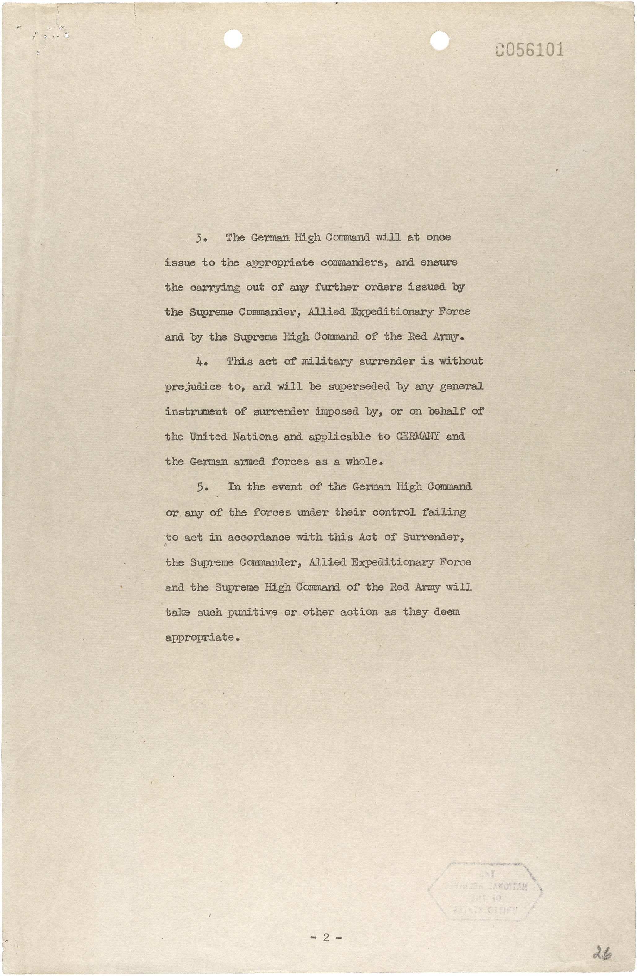 Second page of the German Instrument of Surrender of May 8, 1945 signed at Berlin, Germany. This is the unconditional surrender of all German Forces to the Allied Expeditionary Force and the Supreme Allied Command of the Red Army, in which all German military operations would cease on May 8, 1945 at 2301 hours. It is signed by Generalfeldmarschall Wilhelm Keitel, Generaladmiral Hans-Georg von Friedeburg, and Generaloberst Hans-Jurgen Stumpff on behalf of the German High Command, Marshal Georgy Zhukov on behalf of the Supreme High Command of the Red Army, and Air Chief Marshal Arthur William Tedder on behalf of the Allied Expeditionary Force at Berlin, Germany.